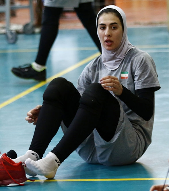 Iranian national volleyball team - 1398